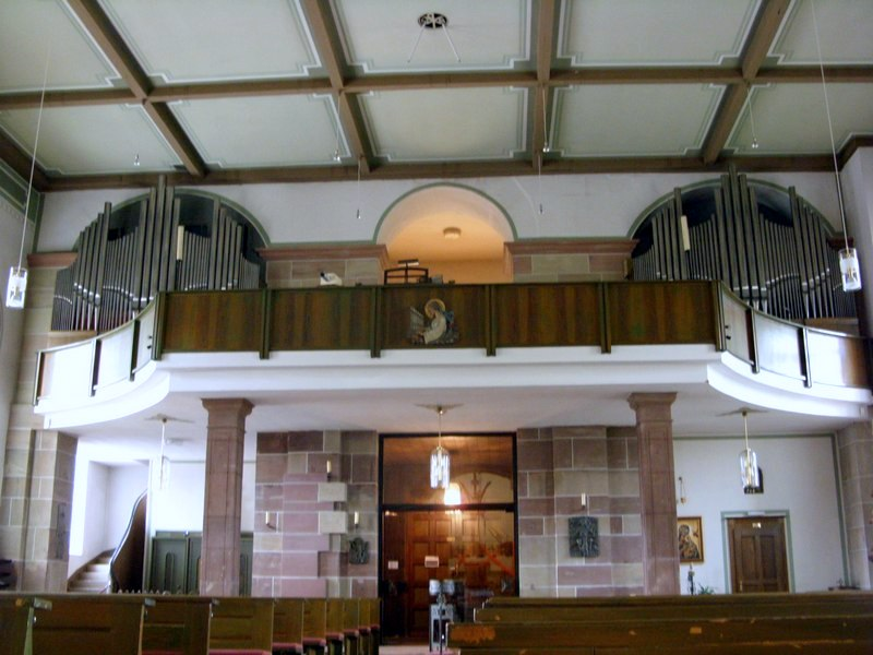 Interior of the roman catholic church in Weiskirchen, Saarland